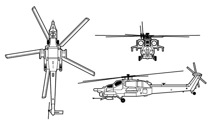 From the fm44-80 manual of the US army